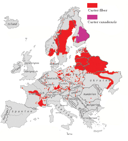 violet: Castor canadensis red: Castor fiber